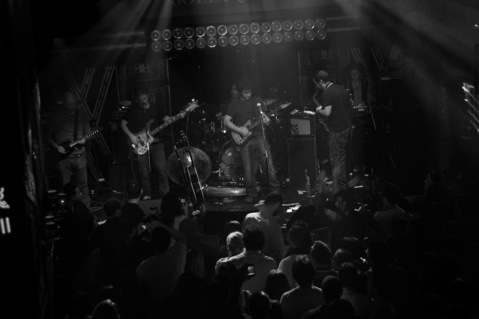 Jolly JokerTürkçe: Jolly Joker